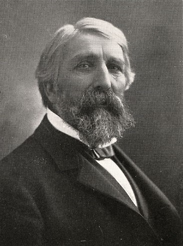 John Van Voorhis, Congressman from Rochester, New York